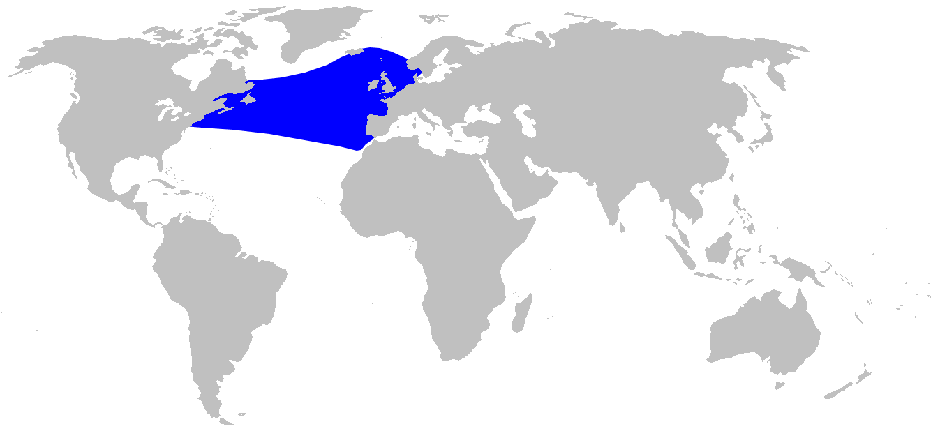 Areal of Mesoplodon bidens